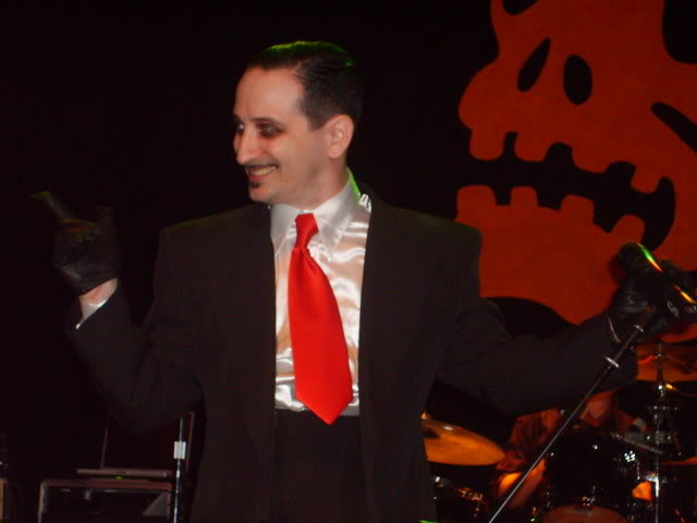 Lee Press-On performing in 2007.